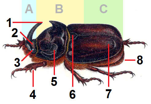 Oryctes nasicornis / Nashornkäfer